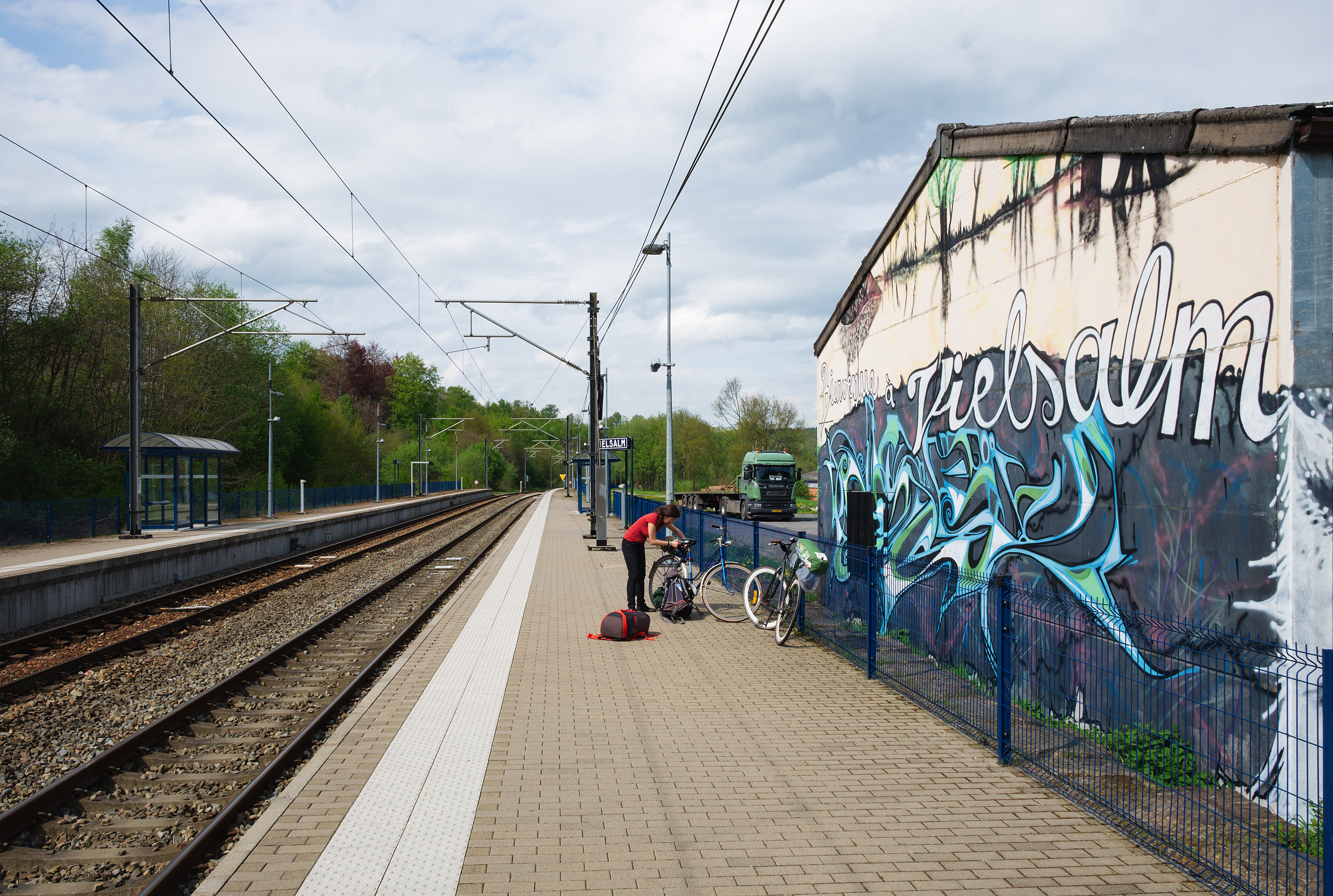 Vielsalm train station